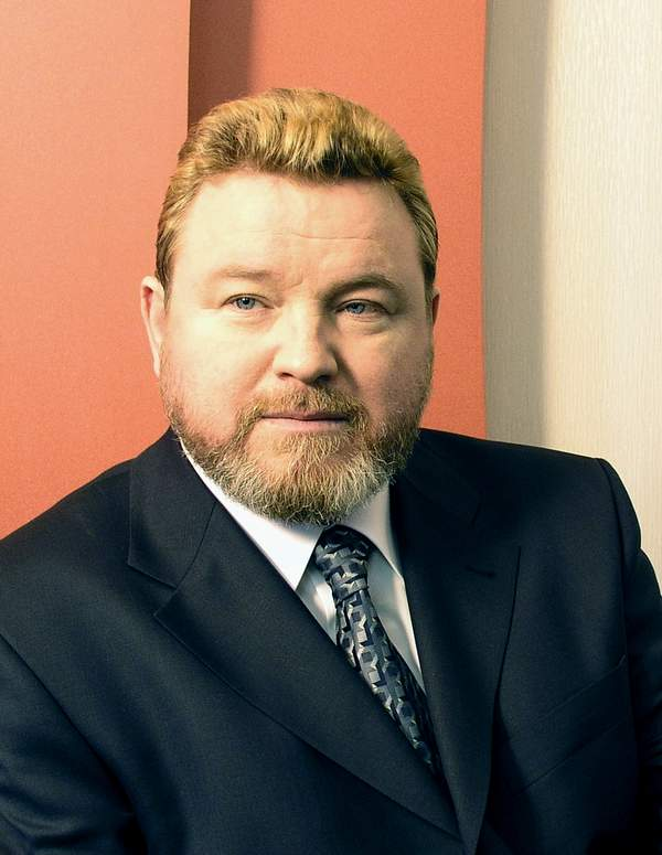 Mikhail Yevdokimov (1957-2005), russian entertainer and politician.